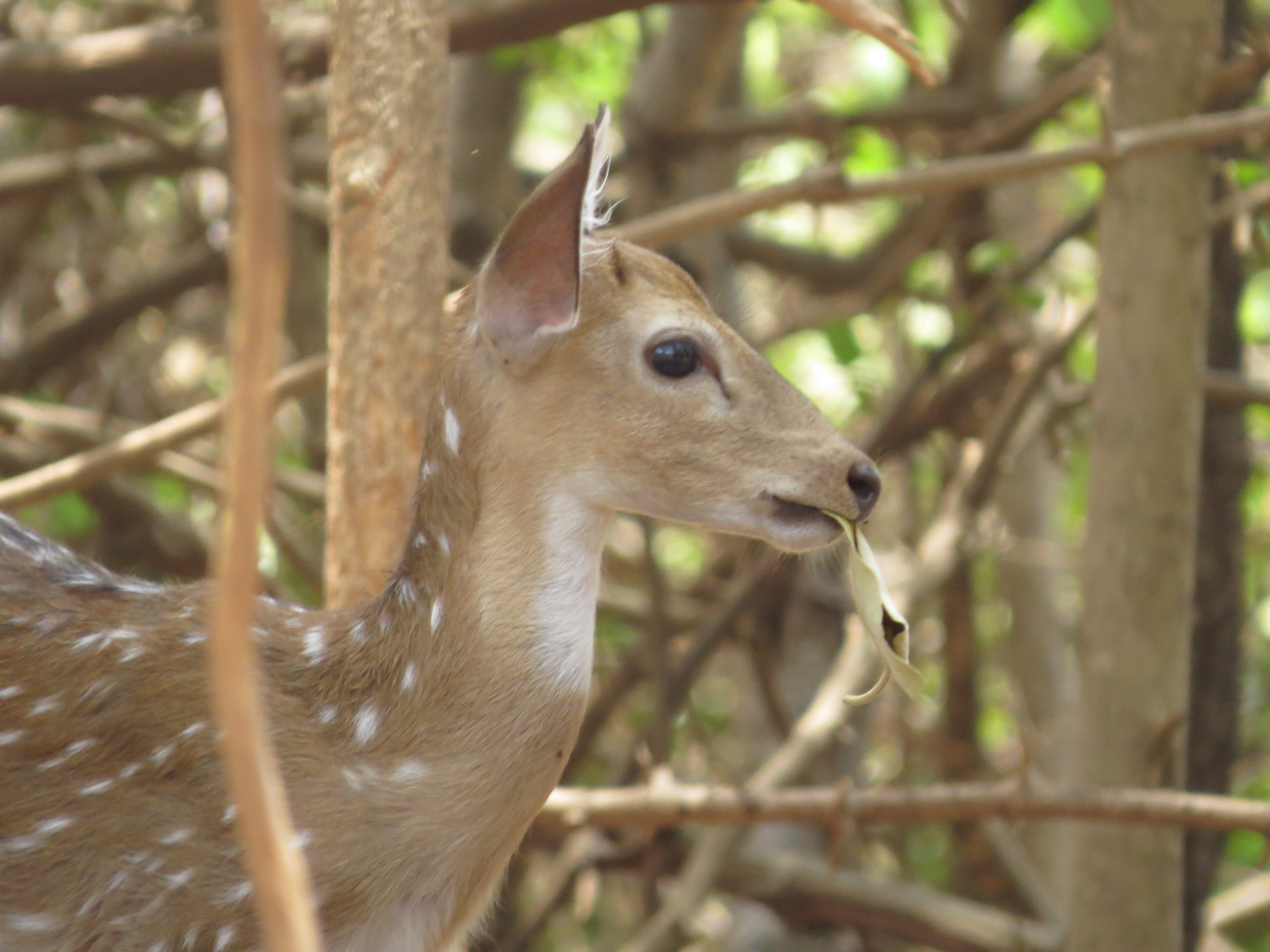 Baby Cheetal Deer Shot at Deer Park of Dadra & Nagar Haveli, India